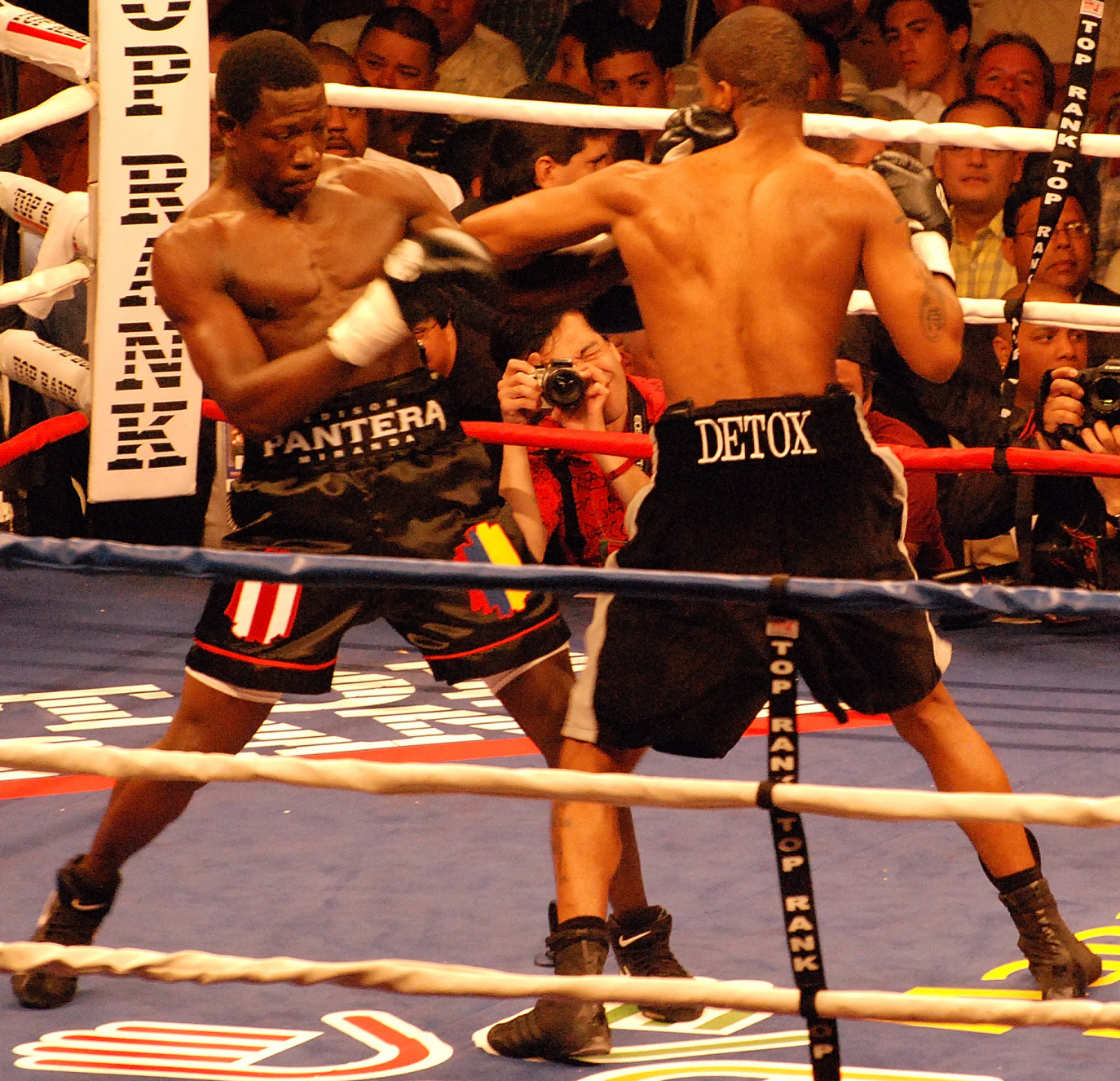 EDISON MIRANDA VS. ALLAN GREEN - Cropped version.